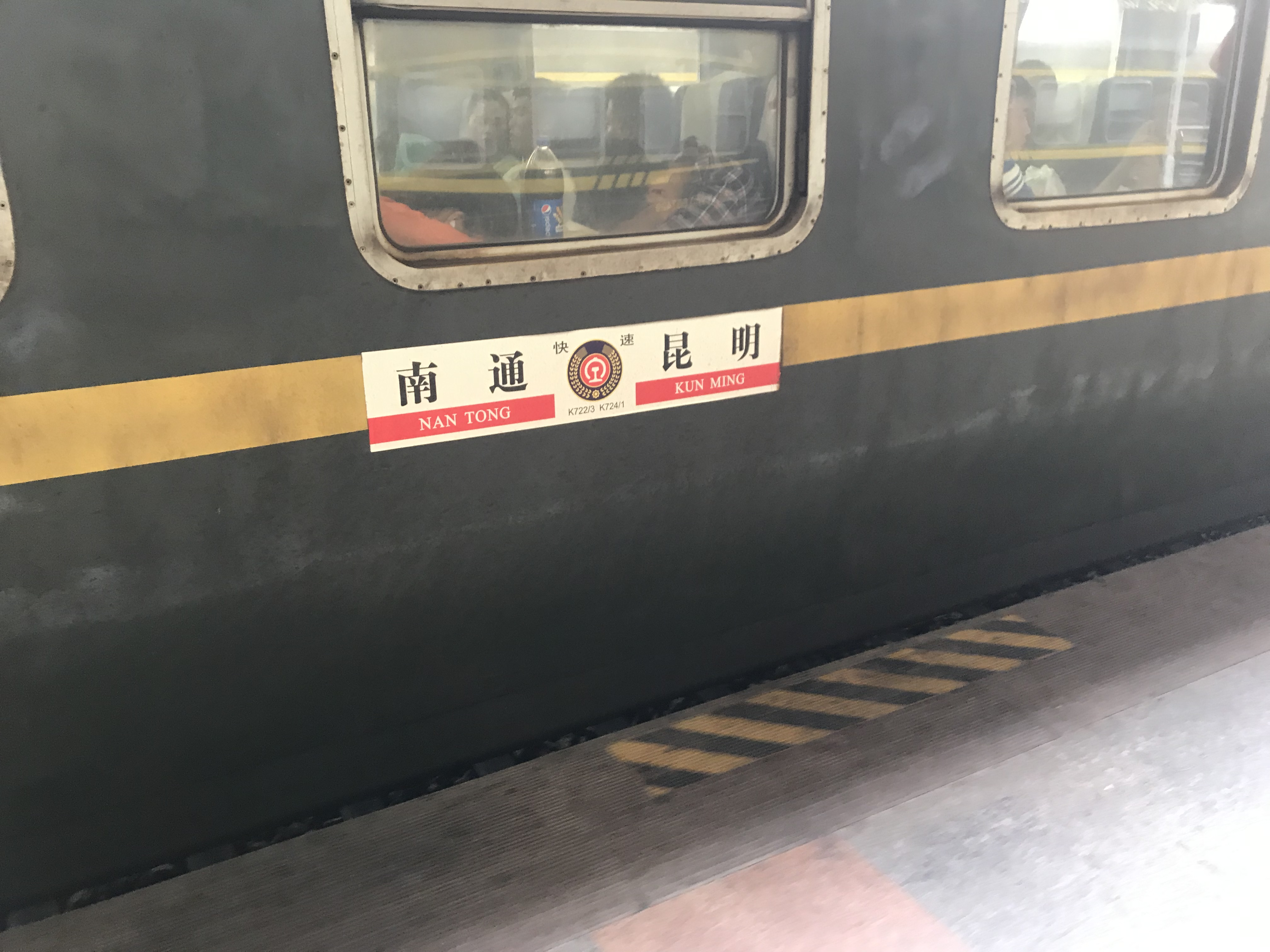 Taken at Nanjing Station